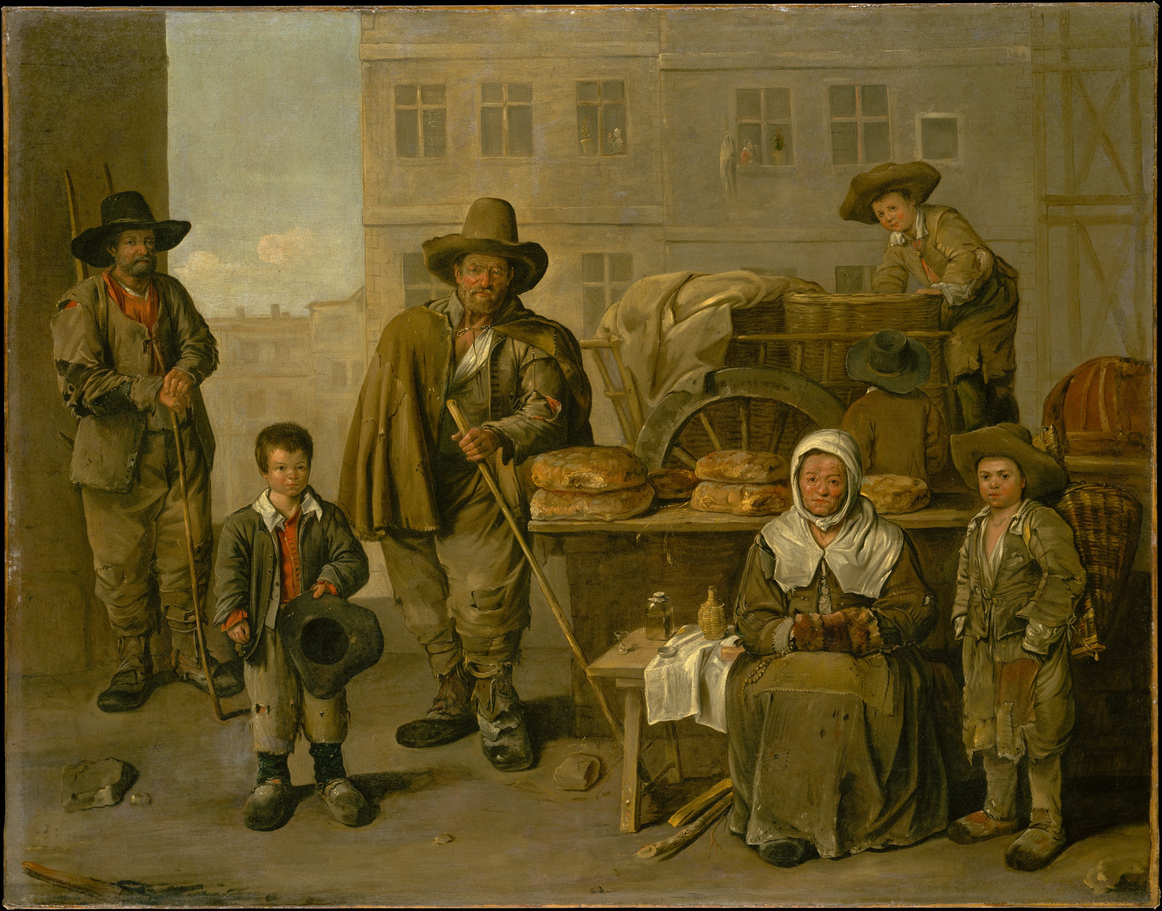 The Baker's Cart